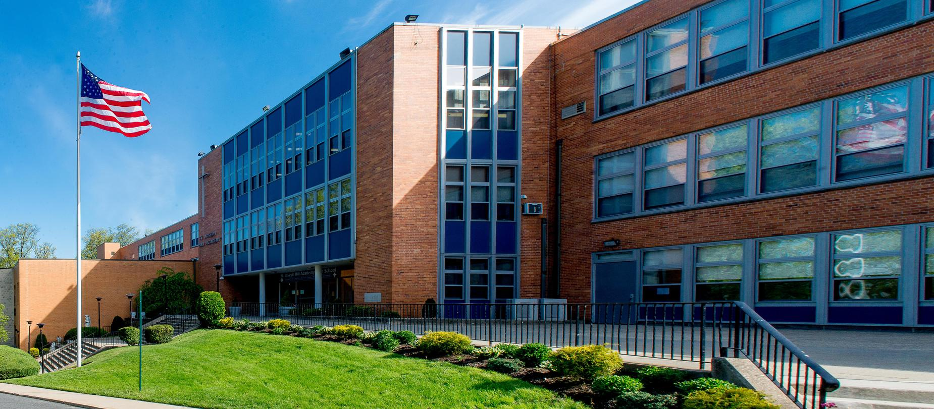 An exterior shot of the private girls' Catholic high school, St. Joseph Hill Academy.